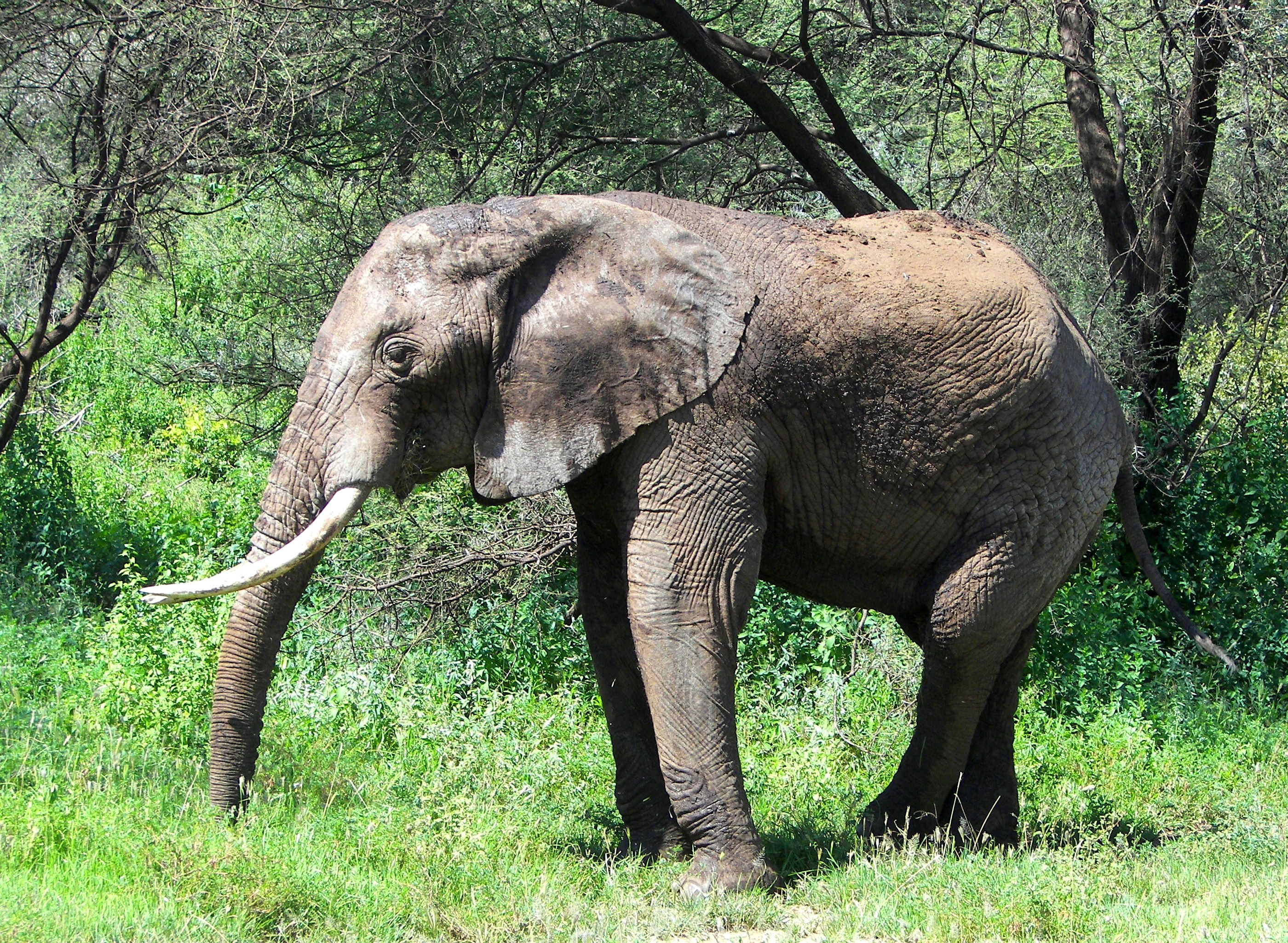 African elephant in its national environment at the Lake Manyara National Park, Tanzania